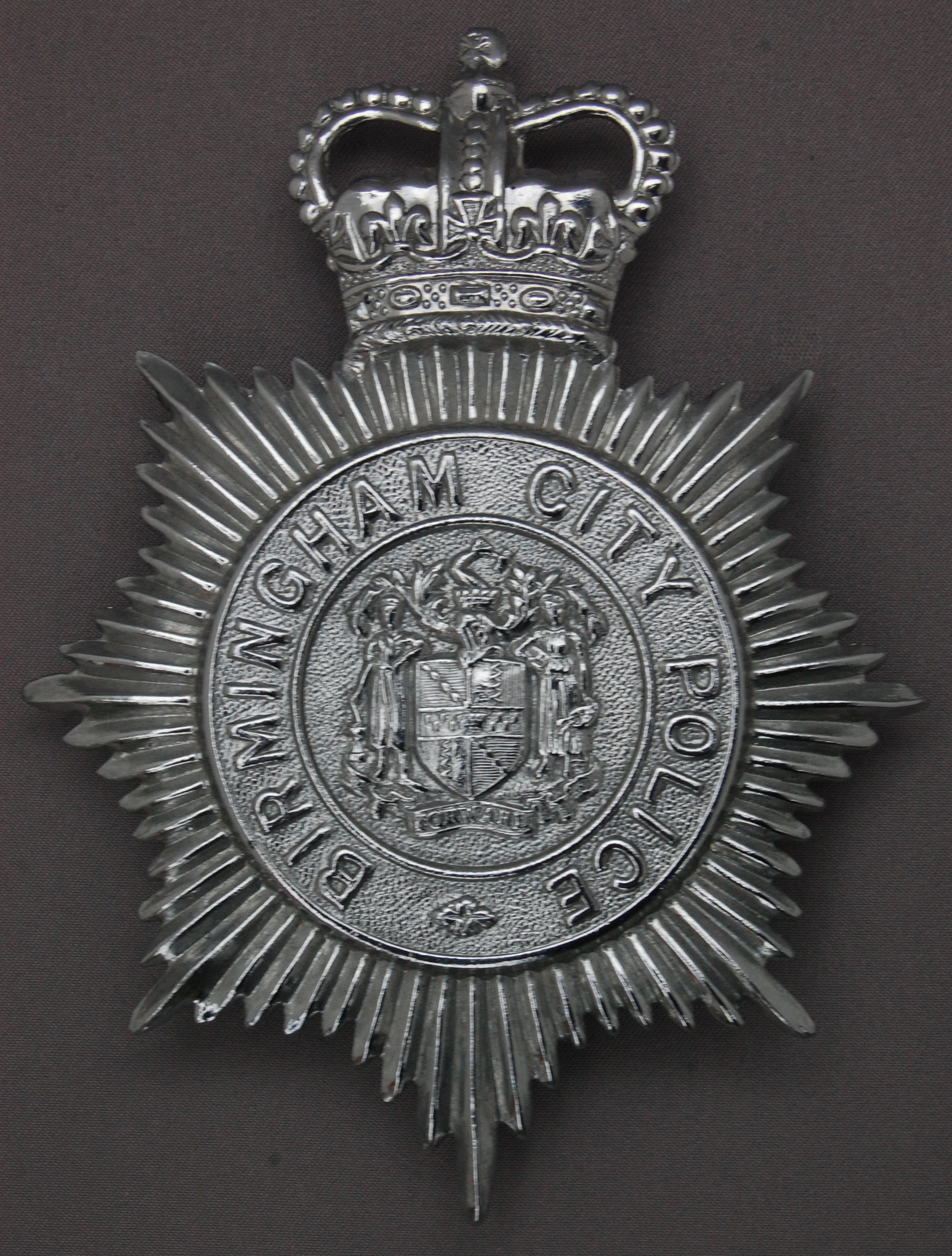 Pressed tin Birmingham City Police hat badge, this type was in use on the last day of the service, in 1974, before it was merged into the West Midlands Police. It features the coat of arms of the City of Birmingham.